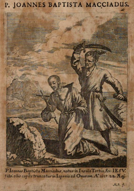 Engraving produced by Melchior Küsel (1626-1683) depicting the beheading of João Baptista Machado at Omura, Japan, May 22th, 1617.